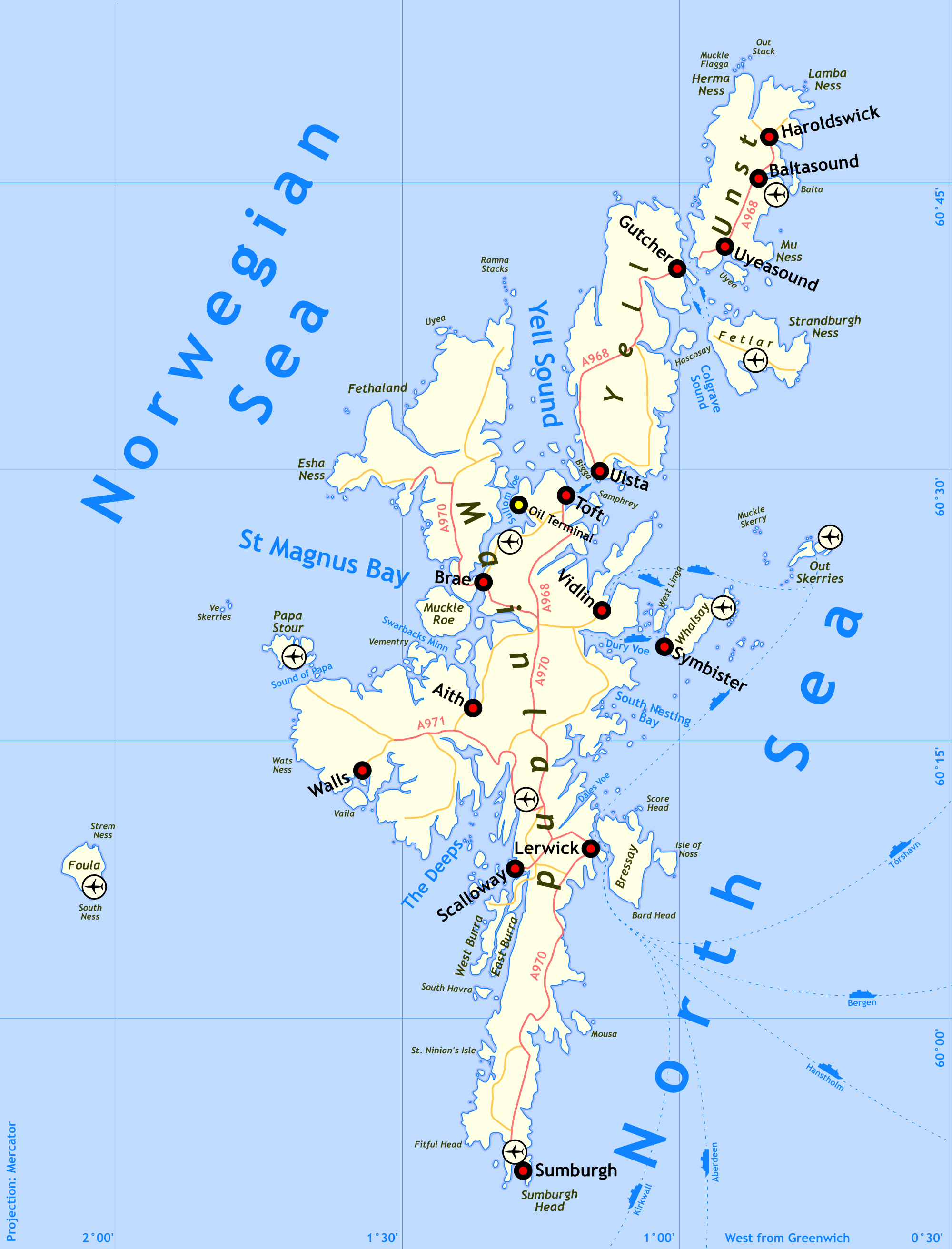 Shetland map